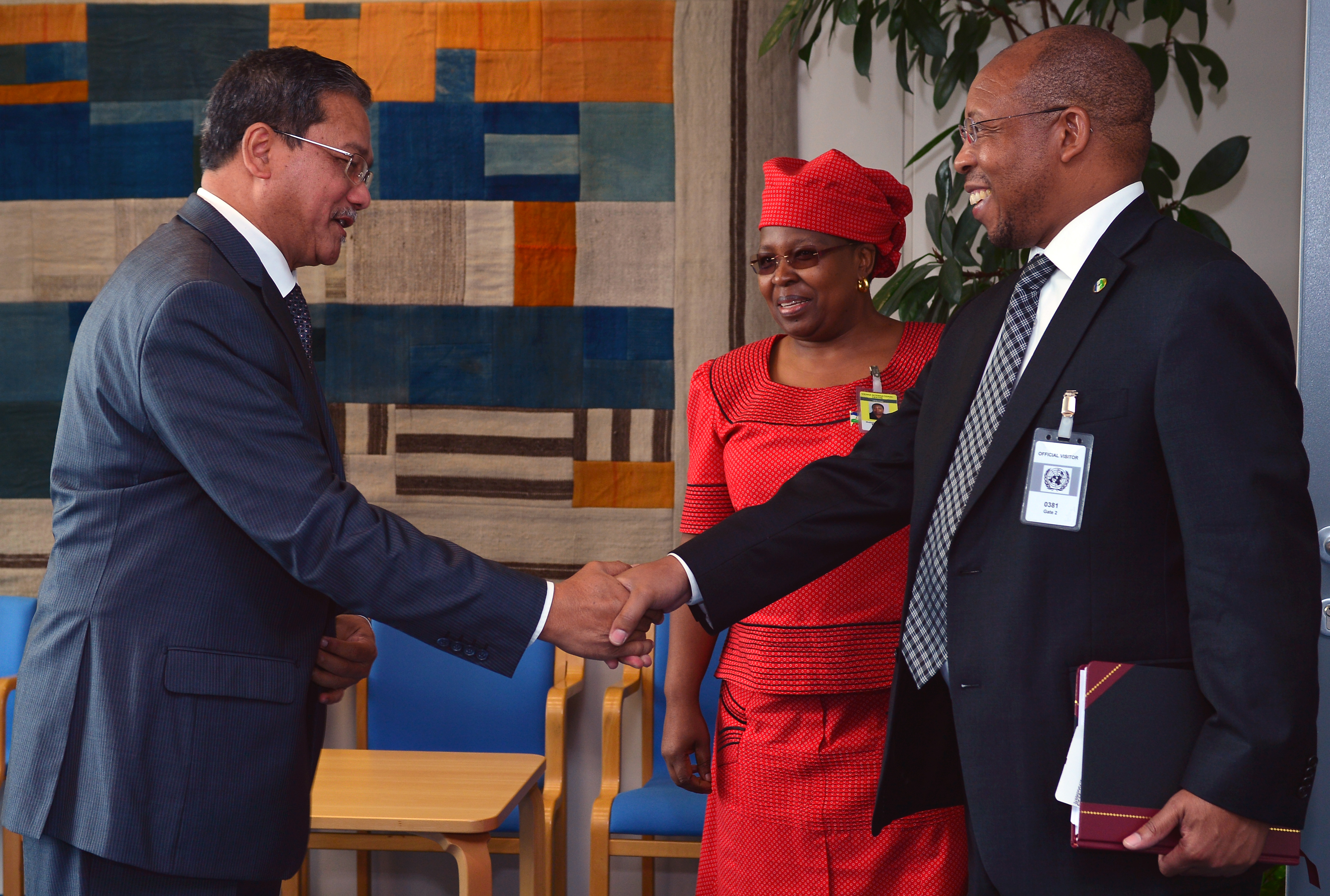 Mr. Daud Mohamad, IAEA Deputy Director General and Head of the Department of Nuclear Sciences and Applications, welcomes H.E. Moeketsi Majoro, Minister of Development Planning, Kingdom of Lesotho, during his arrival to the IAEA headquarters in Vienna, Austria. 2 September 2013. Photo Credit: Dean Calma / IAEA